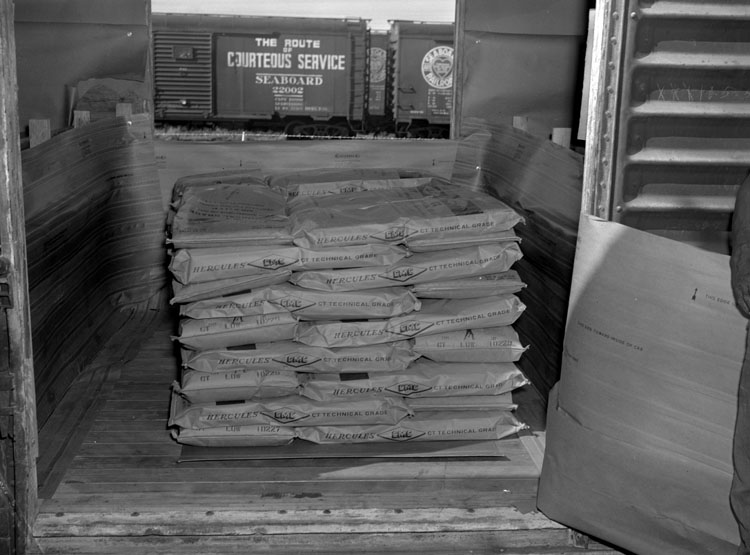 Title: Boxcars for CMC Date: 1957 Oct. Identifier: Hopewell UMWA Collection 1099E Format: 1 negative, safety film Repository: Library of Virginia, Prints and Photographs, 800 E. Broad St., Richmond, VA, 23219, USA, :8881/R